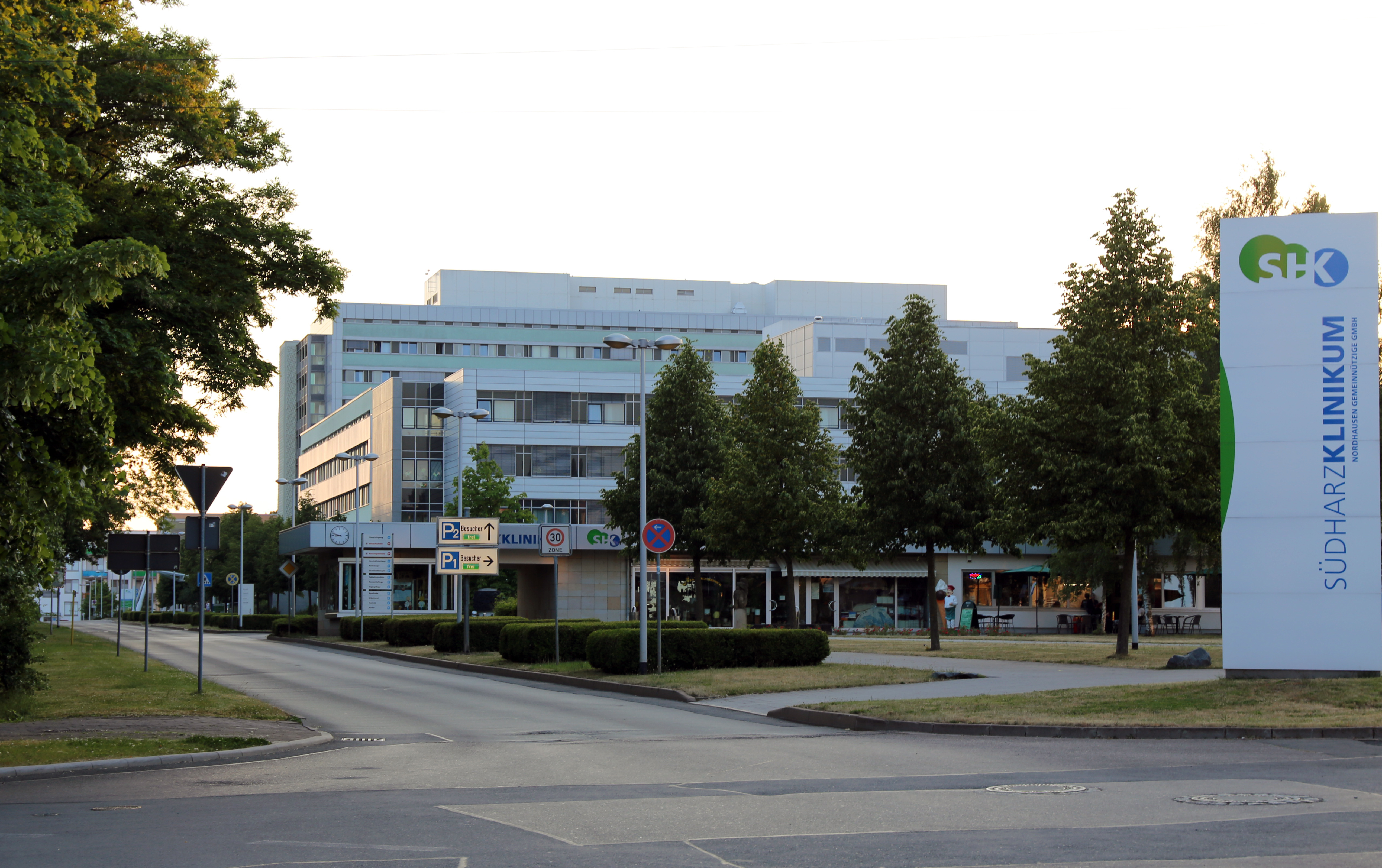 Hospital in Nordhausen